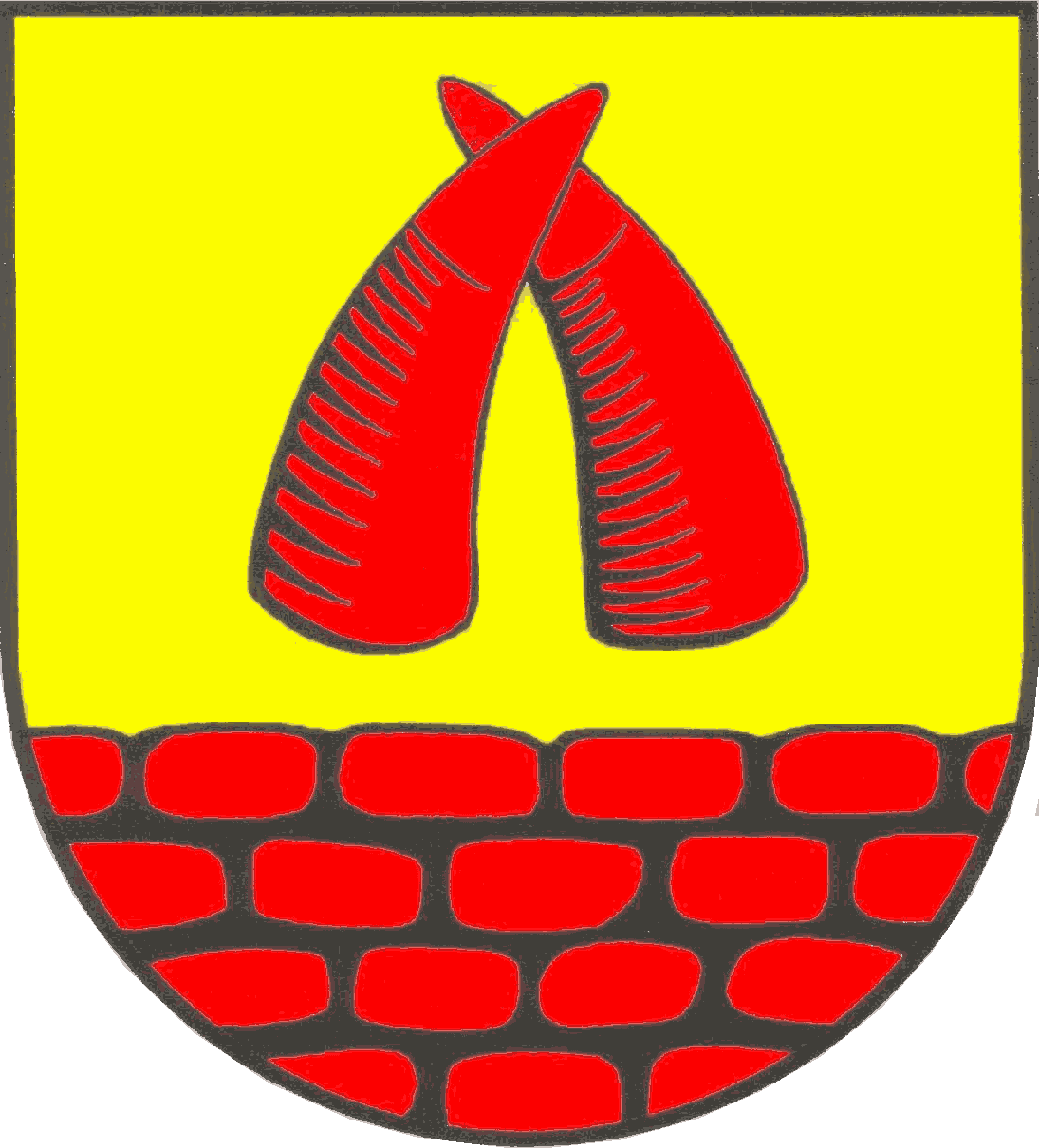 Coat of arms of the municipality Dannewerk in Schleswig-Holstein, Germany.